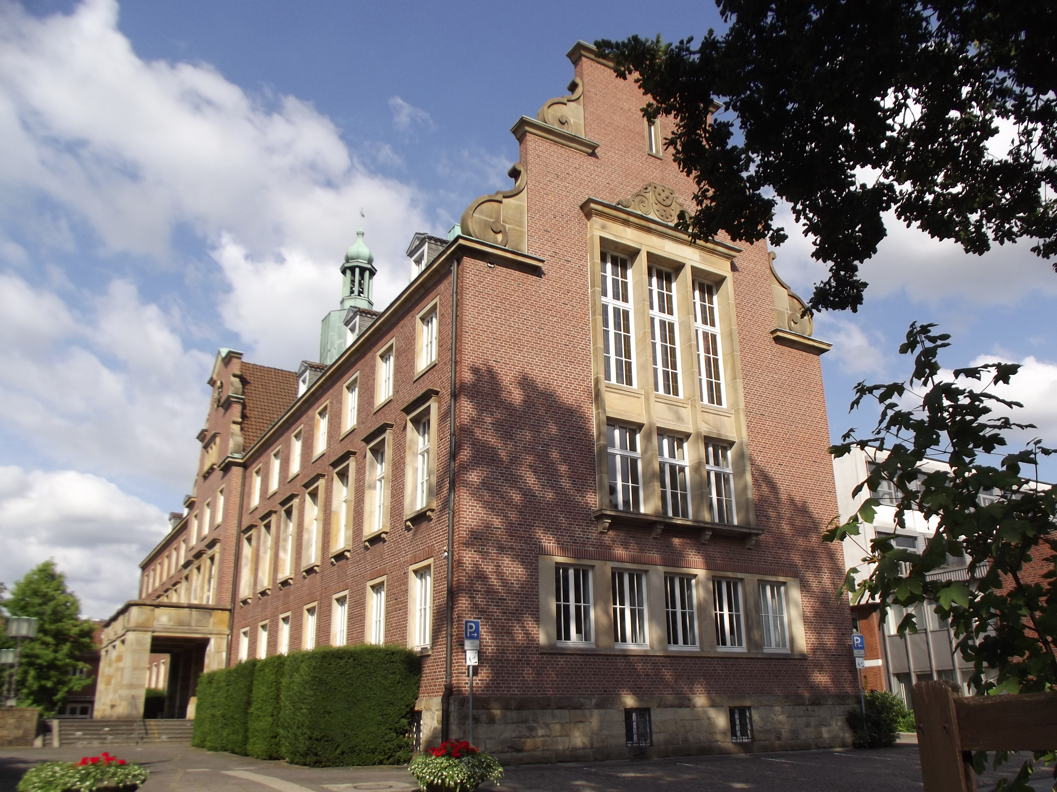 The town-hall from an angle where I didn't have so many trees in the pic.